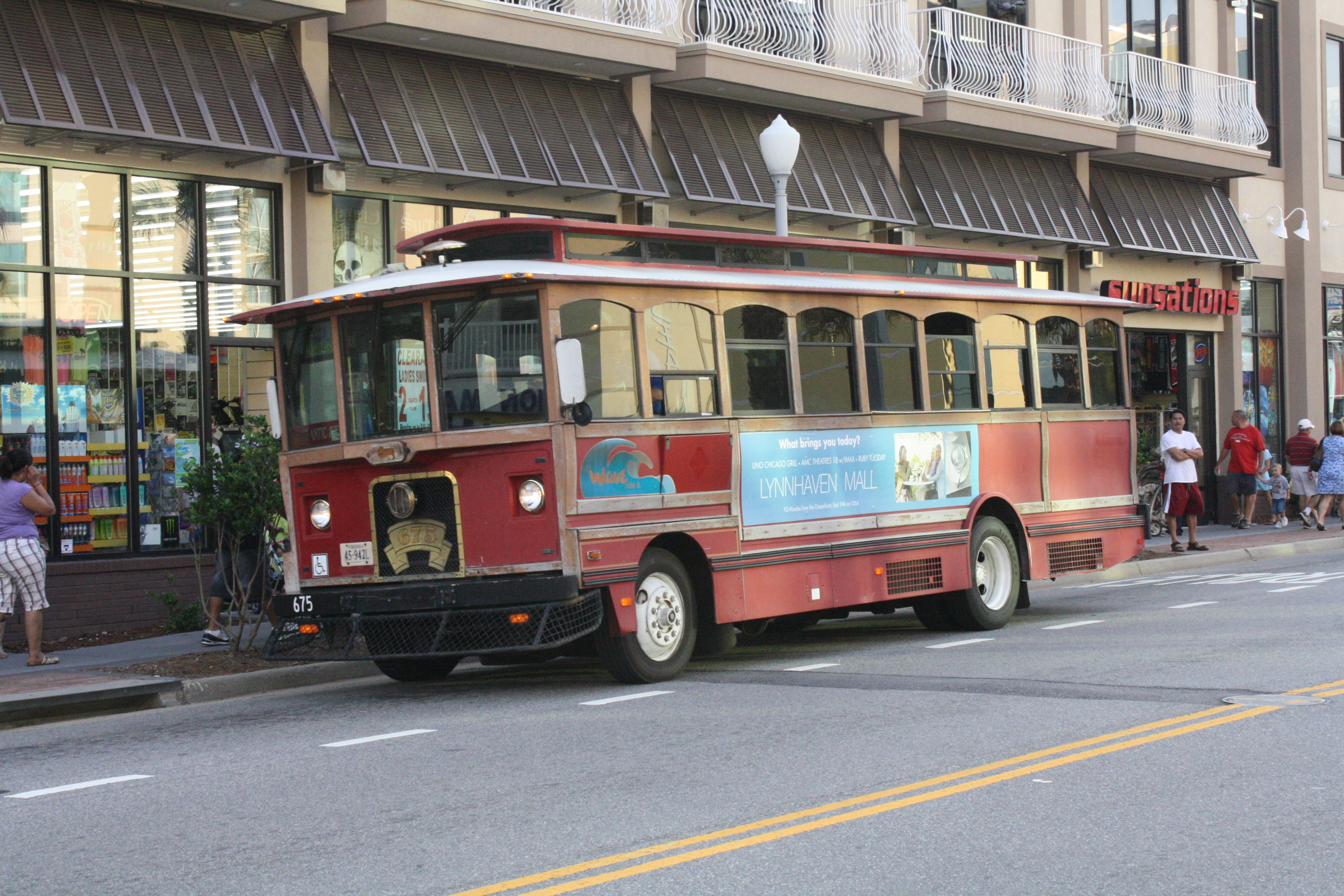 VB Wave Trolley Bus (a bus that is a replica of a trolley), in Virginia Beach, Virginia, United States.